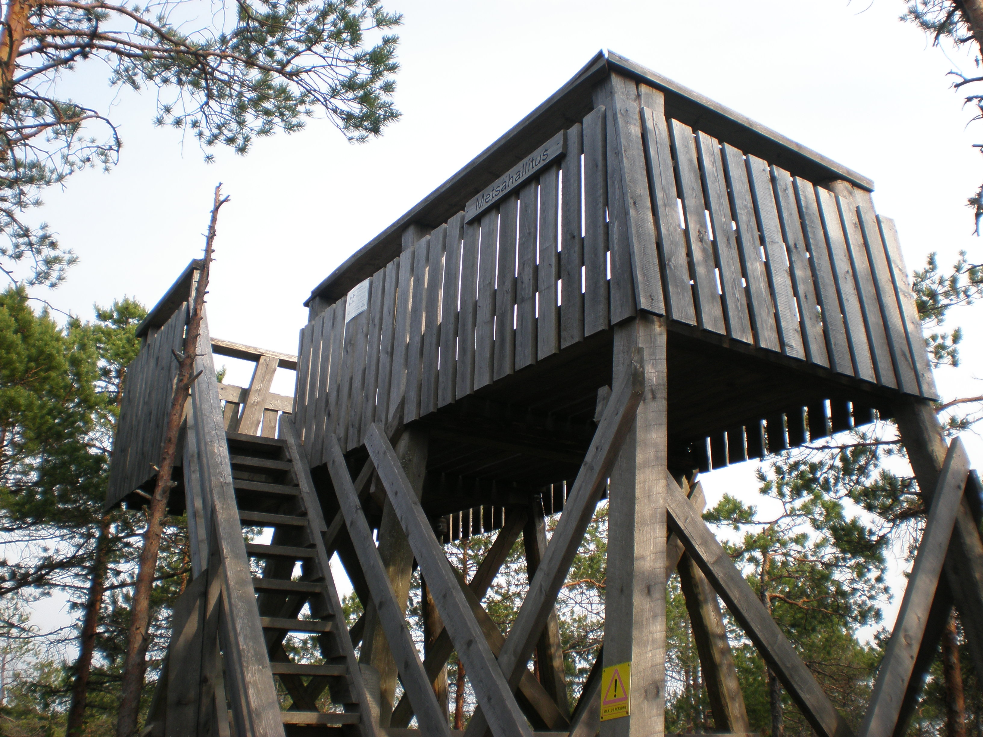 Nature watching tower on the Isosuo mire at the Puurijärvi-Isosuo national park